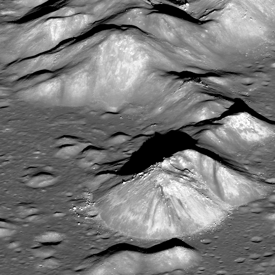 Central peak complex of Copernicus crater. The peaks stand in a now frozen lake of impact melt. Height of peak at the foreground is 700 m, image width is ~8 km. Photo by Lunar Reconnaissance Orbiter, made with Narrow Angle Camera (M196665381LR).